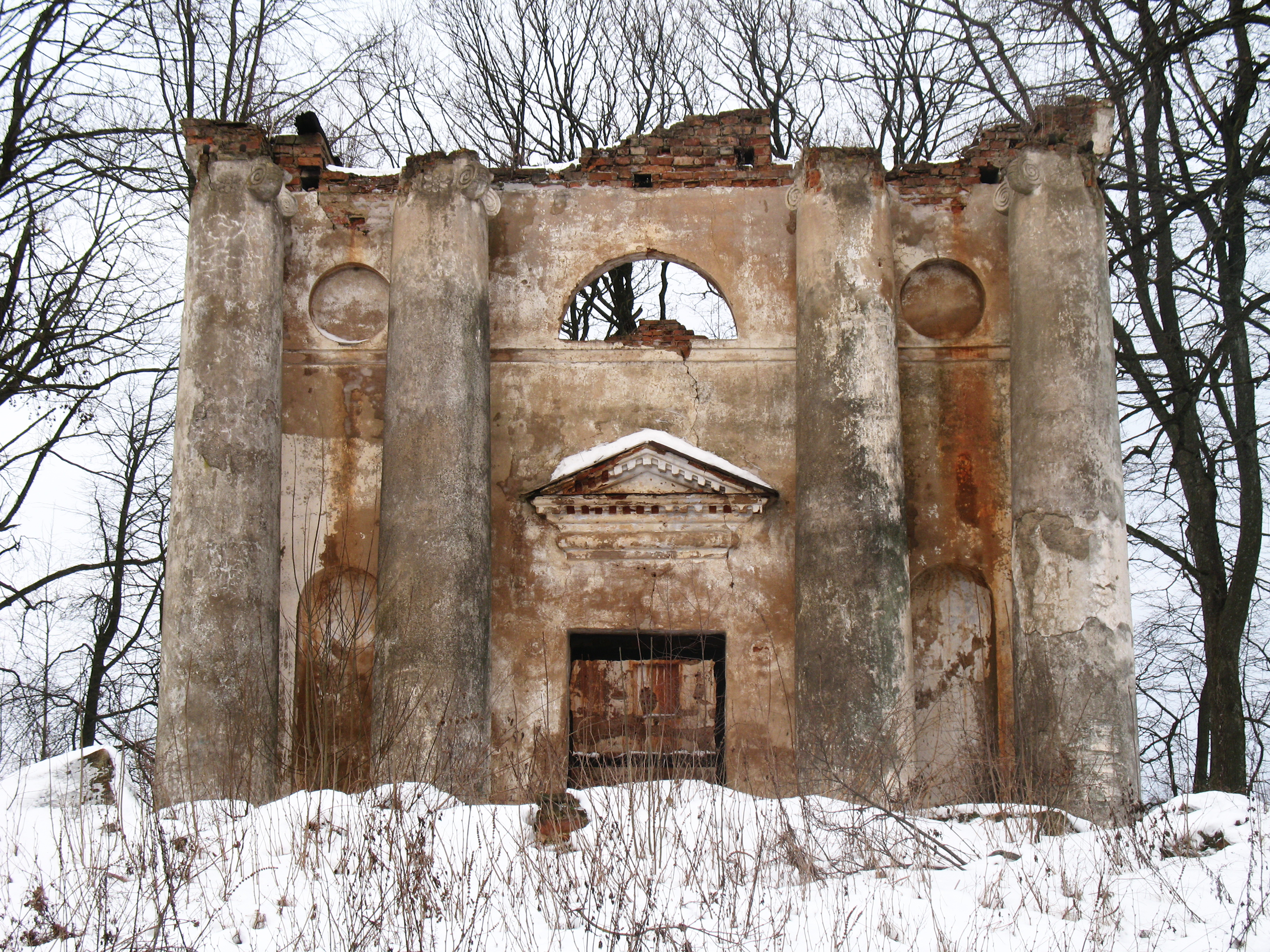 Catholic church in Ravanichi, Belarus.